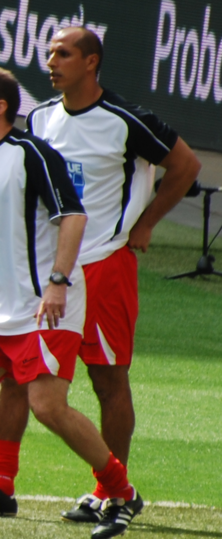 Dino Maamria. Image cropped from original at flickr.